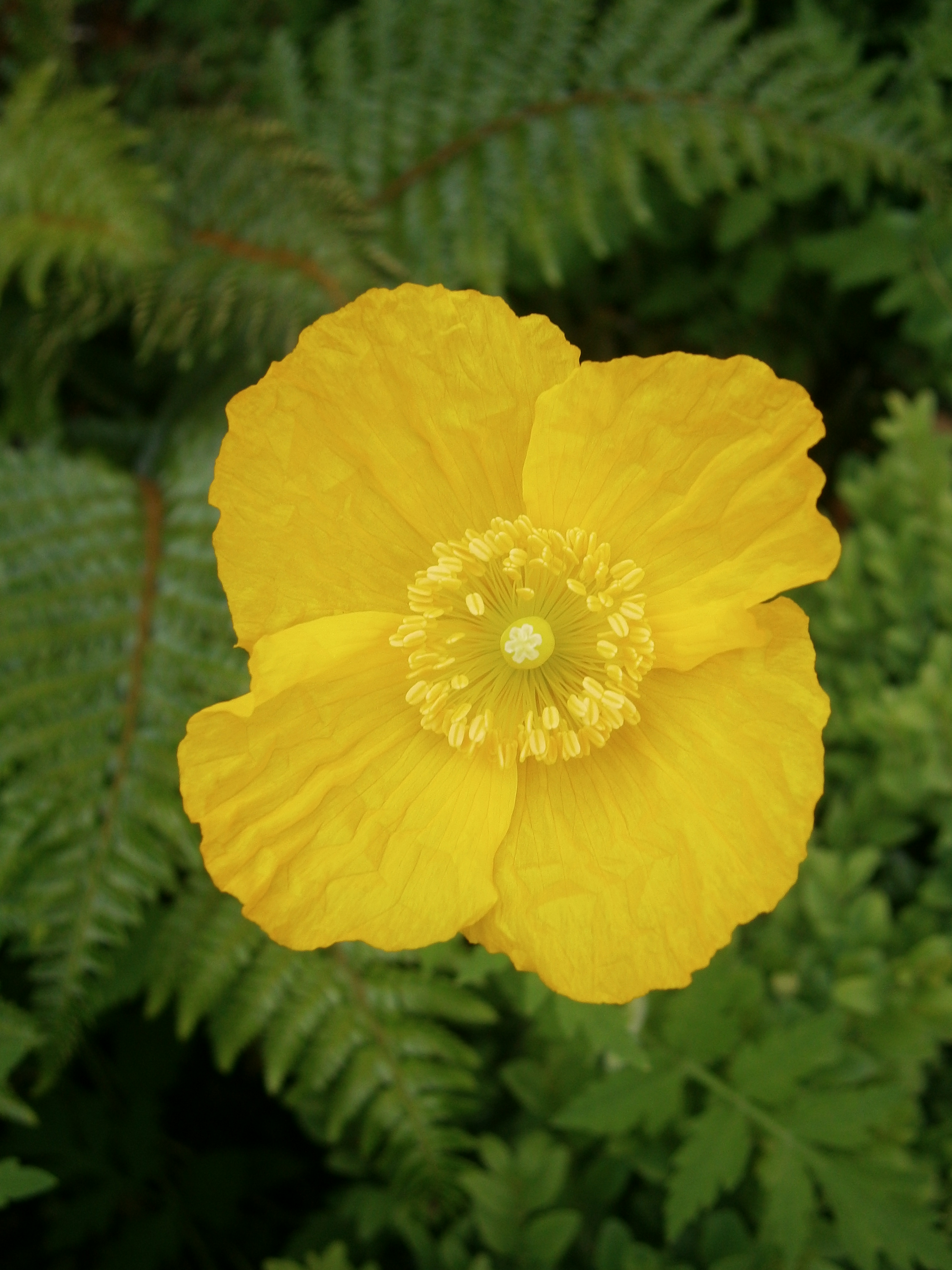 Meconopsis cambrica close-up